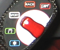 The steering wheel and dashboard of a Ferrari F430 at the 2006 Chicago Auto Show